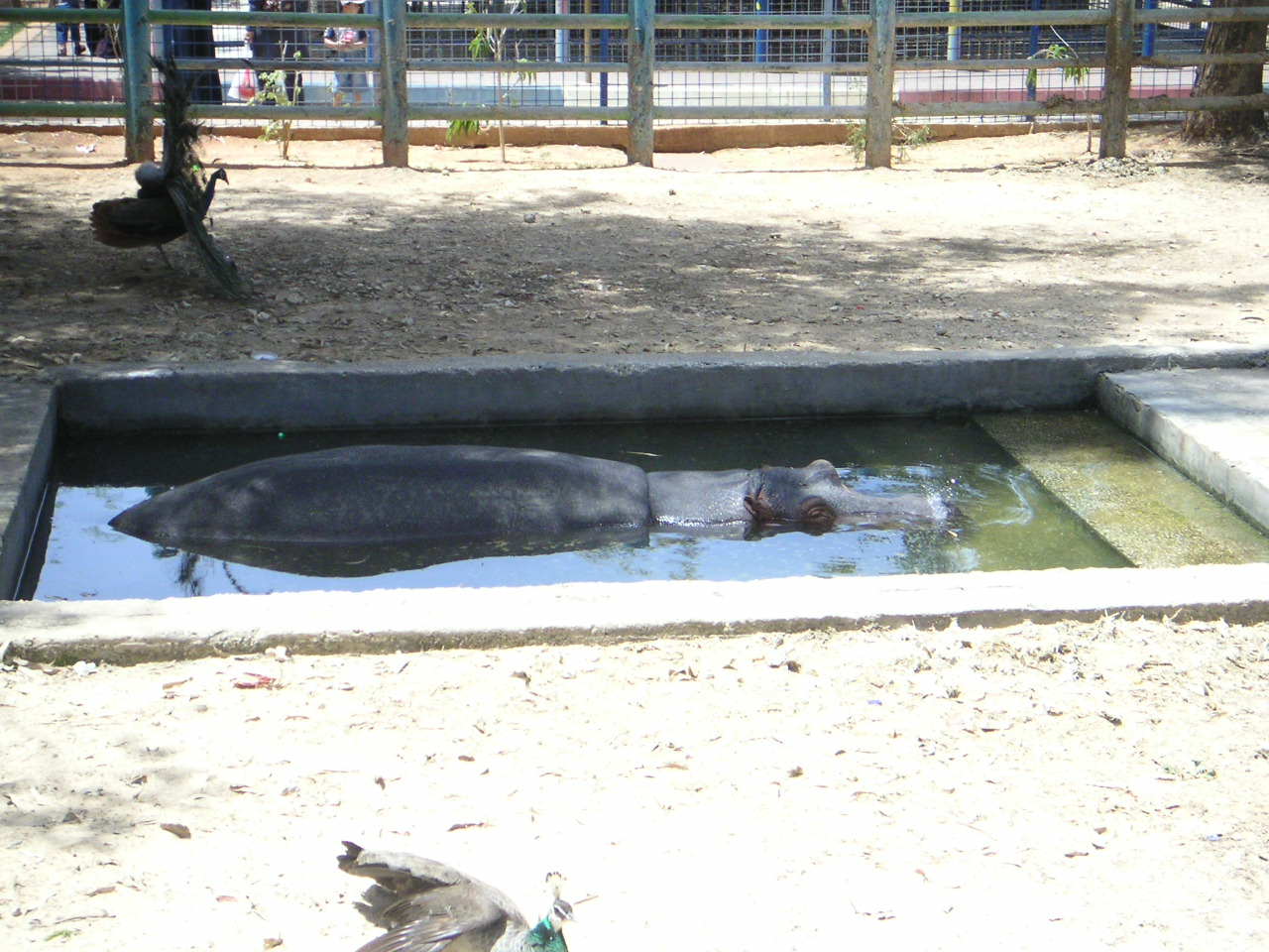 Photo: Soman